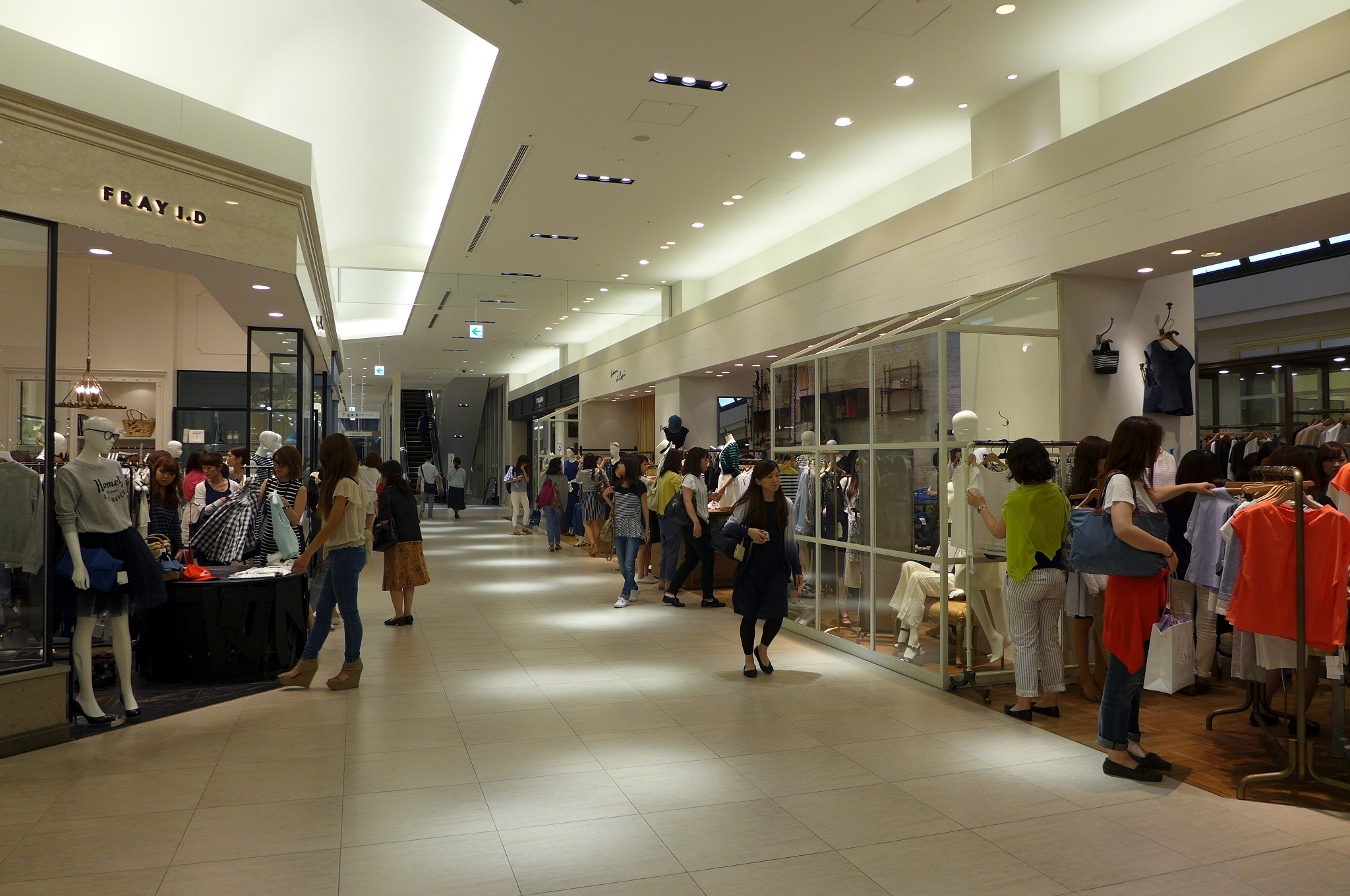 Osaka Station City Lucua Level 1